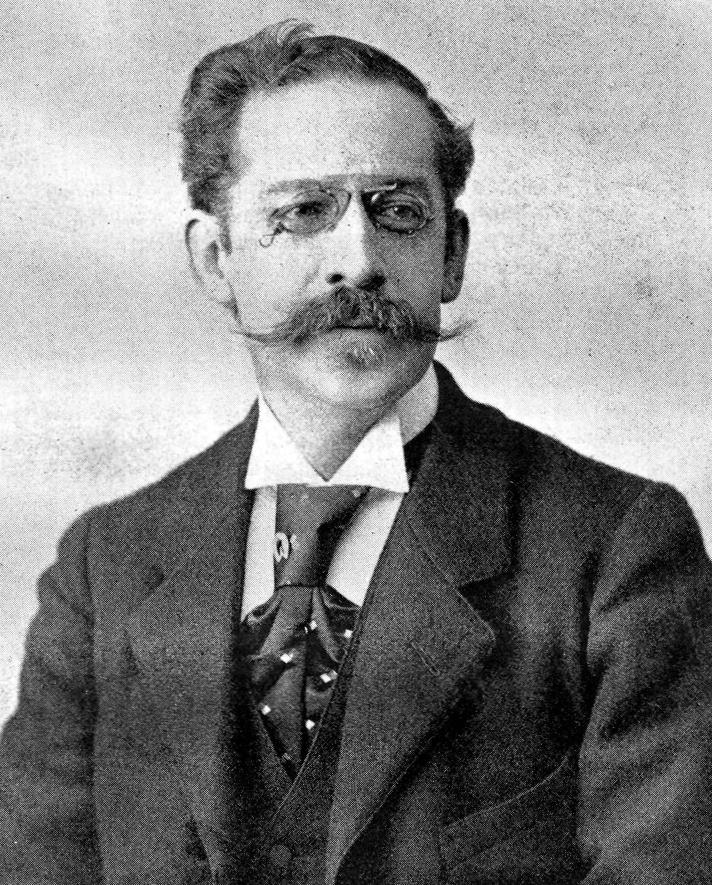 Henri Viotta